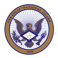 The Seal of the Arkansas National Guard